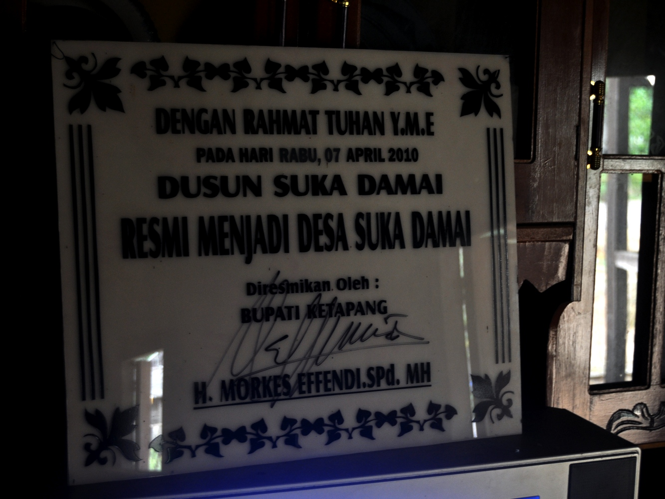 Inscription of Sukadamai Village, West Kalimantan, Indonesia